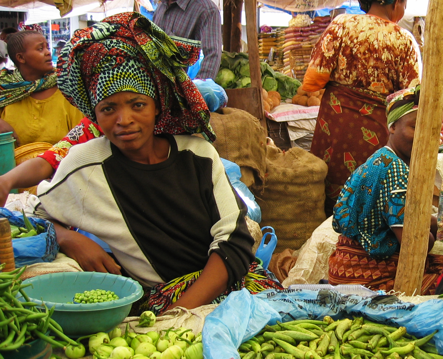 Arusha Market, Tanzania